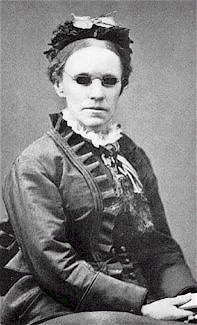 A picture of Frances Jane "Fanny" Crosby (1820-1915), American poetess and one of the most prolific hymnist in history, composing over 8,000 hymns.